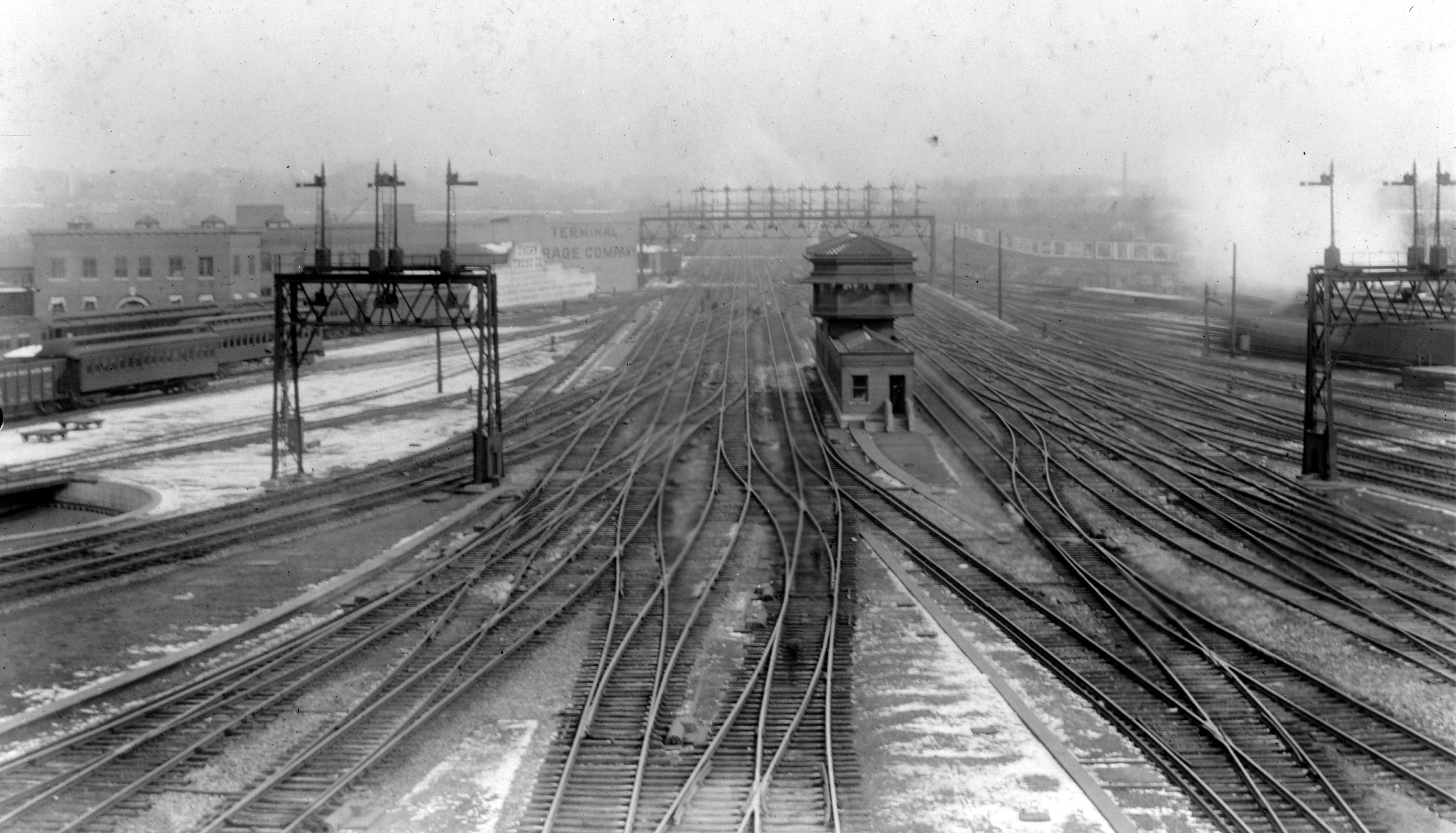 Approach tracks north of Union Station, Washington, D.C., as seen from the station building. "K" Tower of Pennsylvania Railroad in center of photo. The signals, rail switches and interlocking equipment were manufactured by Union Switch and Signal Co. (Photo cropped from original, brightened with Photoshop.)